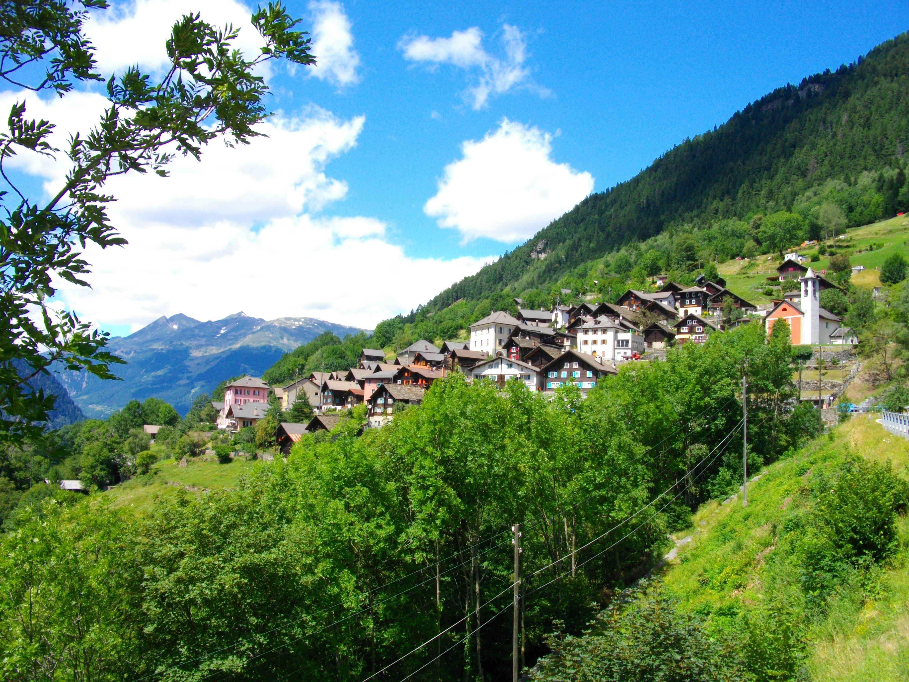 Anzonico view